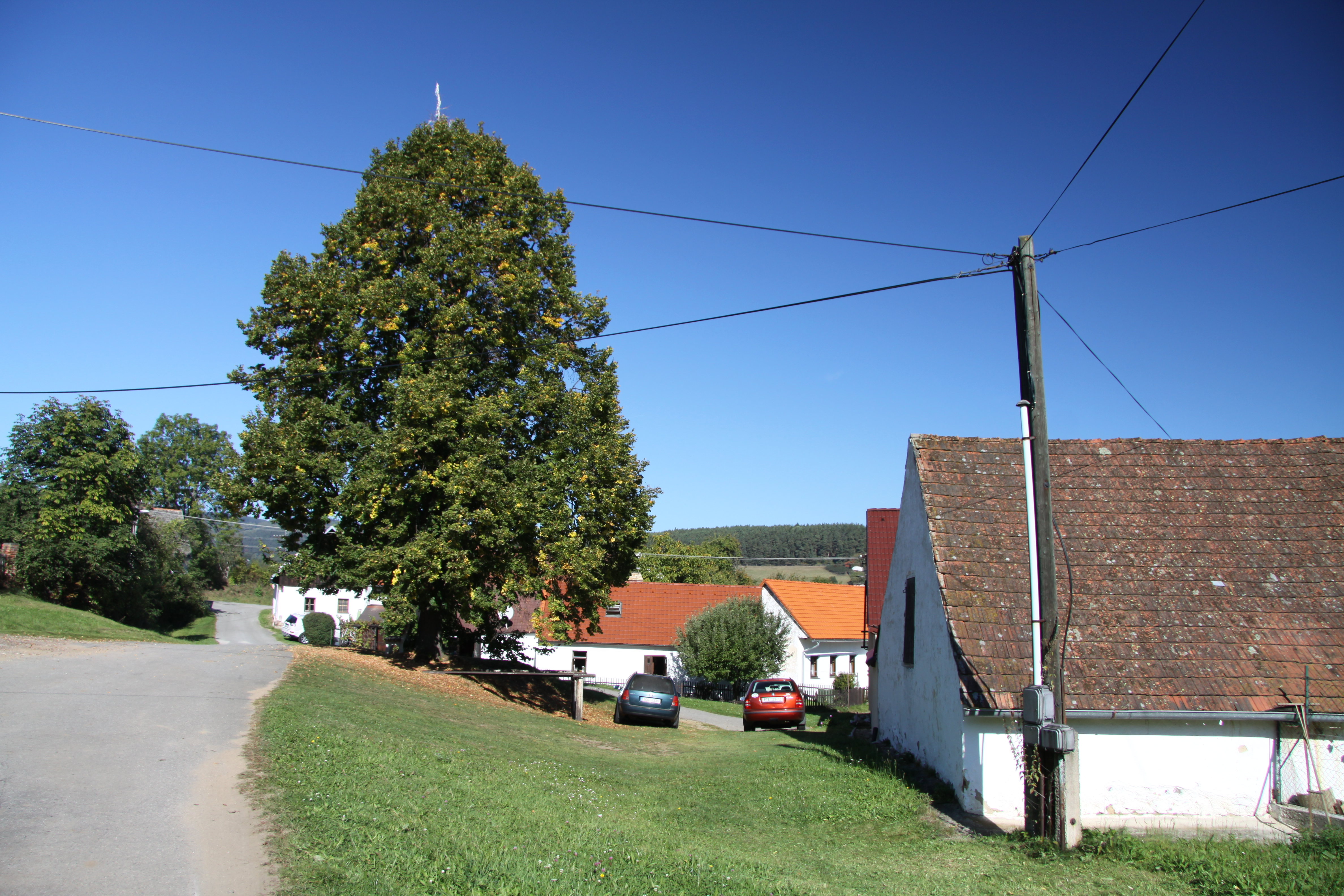 Horouty village, part of Husinec village in Prachatice District, Czech Republic - Google Maps - Google Earth